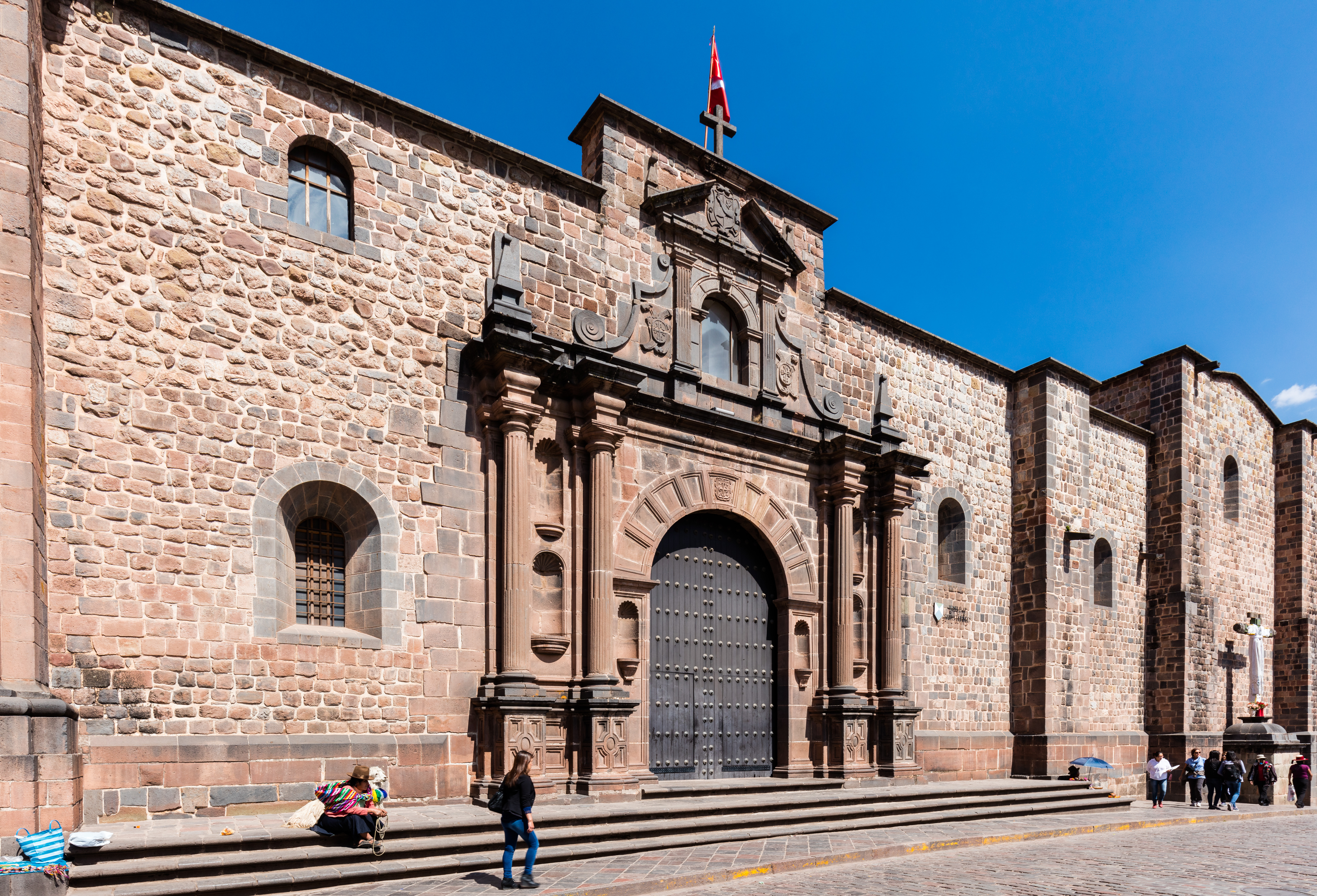 St. Domingo convent, Cusco, Peru